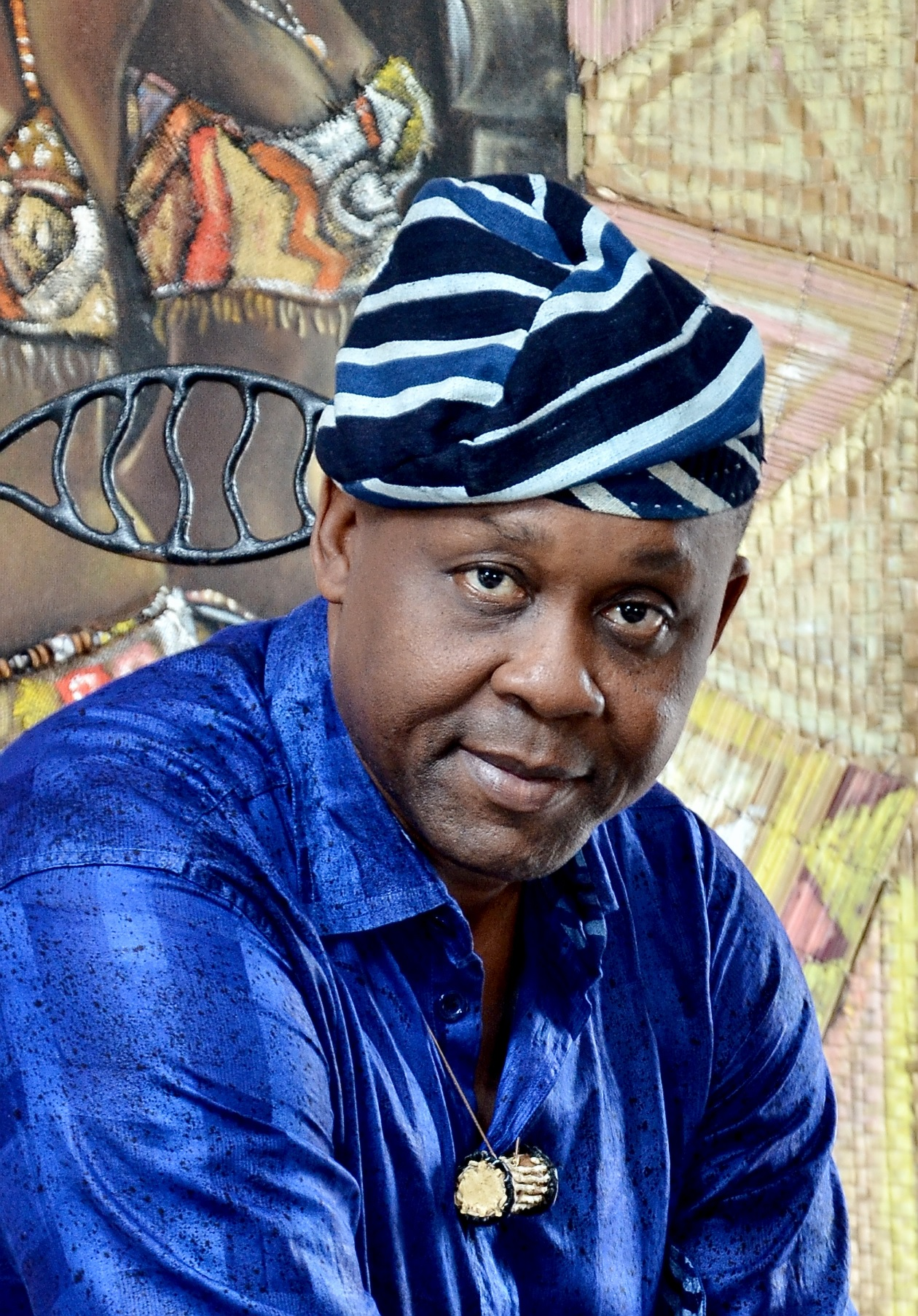 Photo of Dr. Wanle Akinboboye